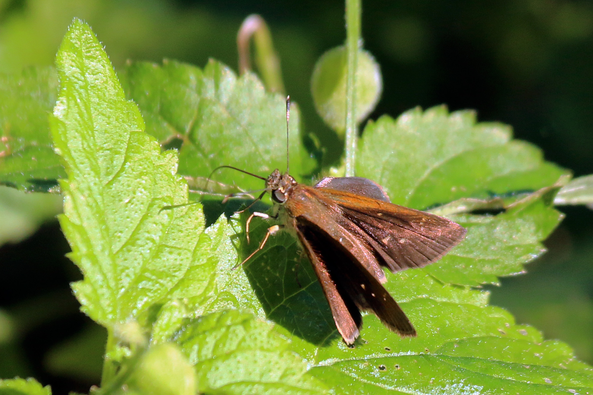 Branded skipper butterfly (Rhinthon cubana cubana), Jamaica